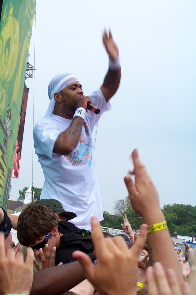 Method Man couldn't leave the crowd alone!